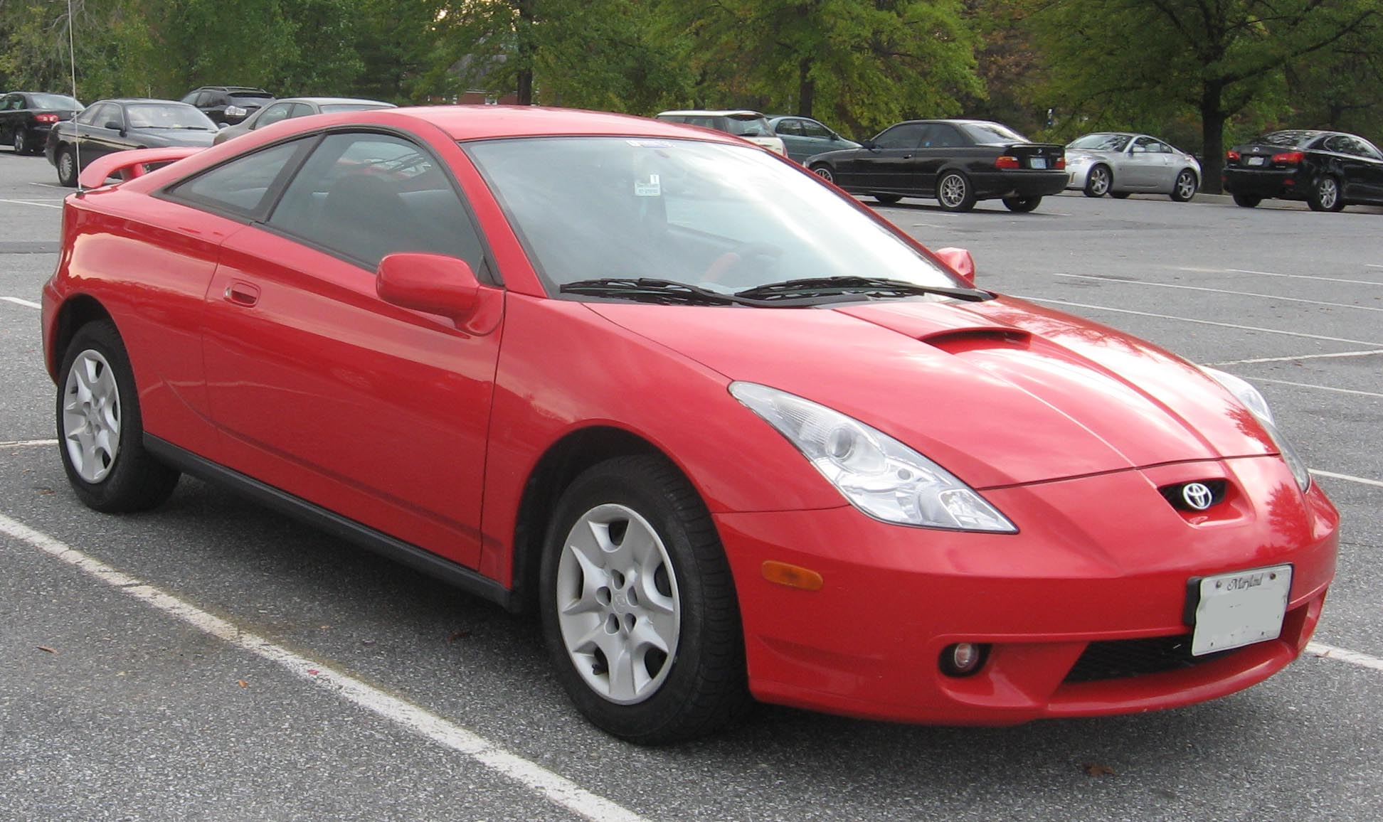 2000-2004 Toyota Celica GT (ZZT230) shown in Absolutely Red (colour code 3P0), photographed in College Park, Maryland, USA.